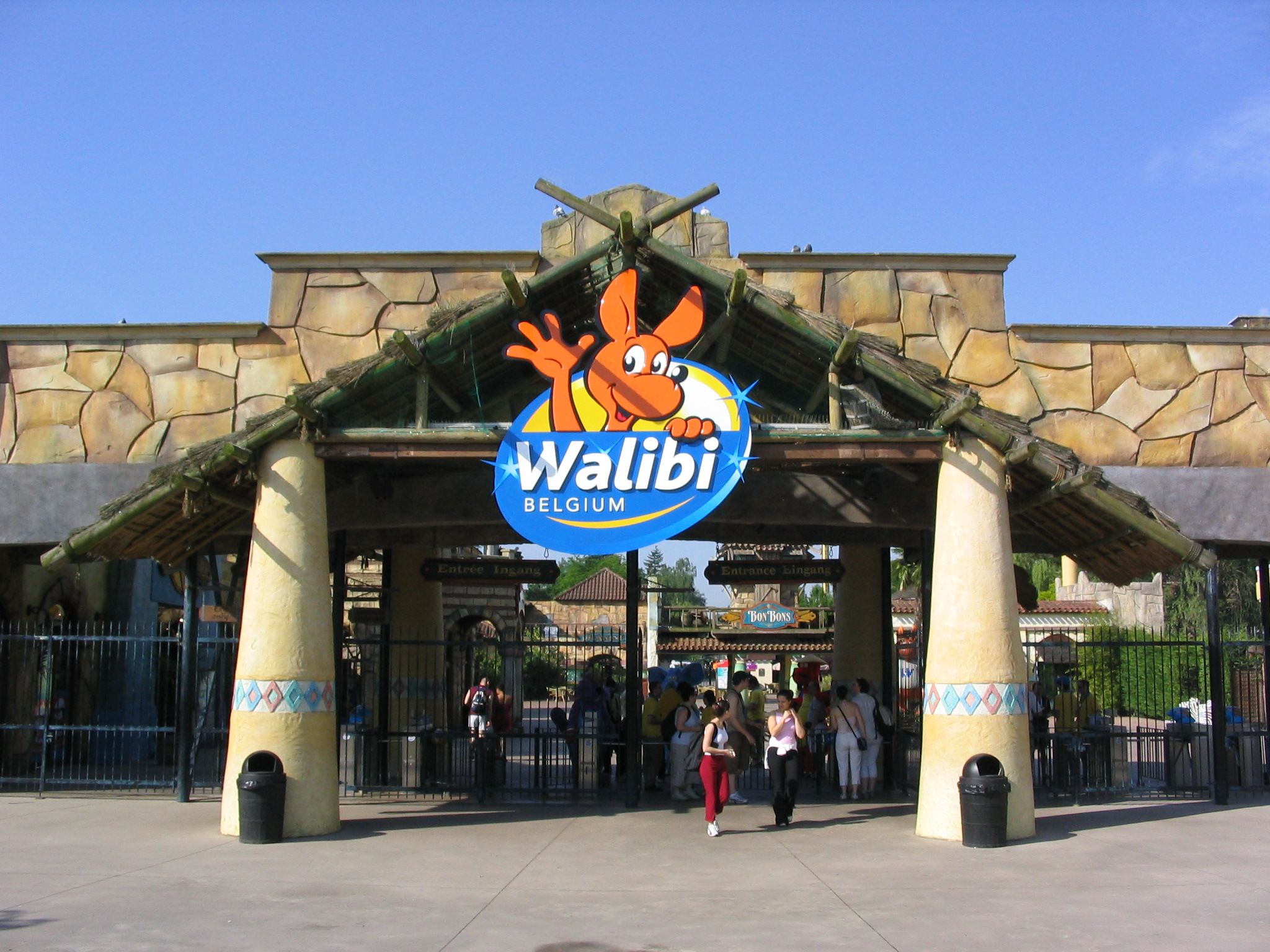 The entrance of Walibi Belgium in Wavre, Belgium.